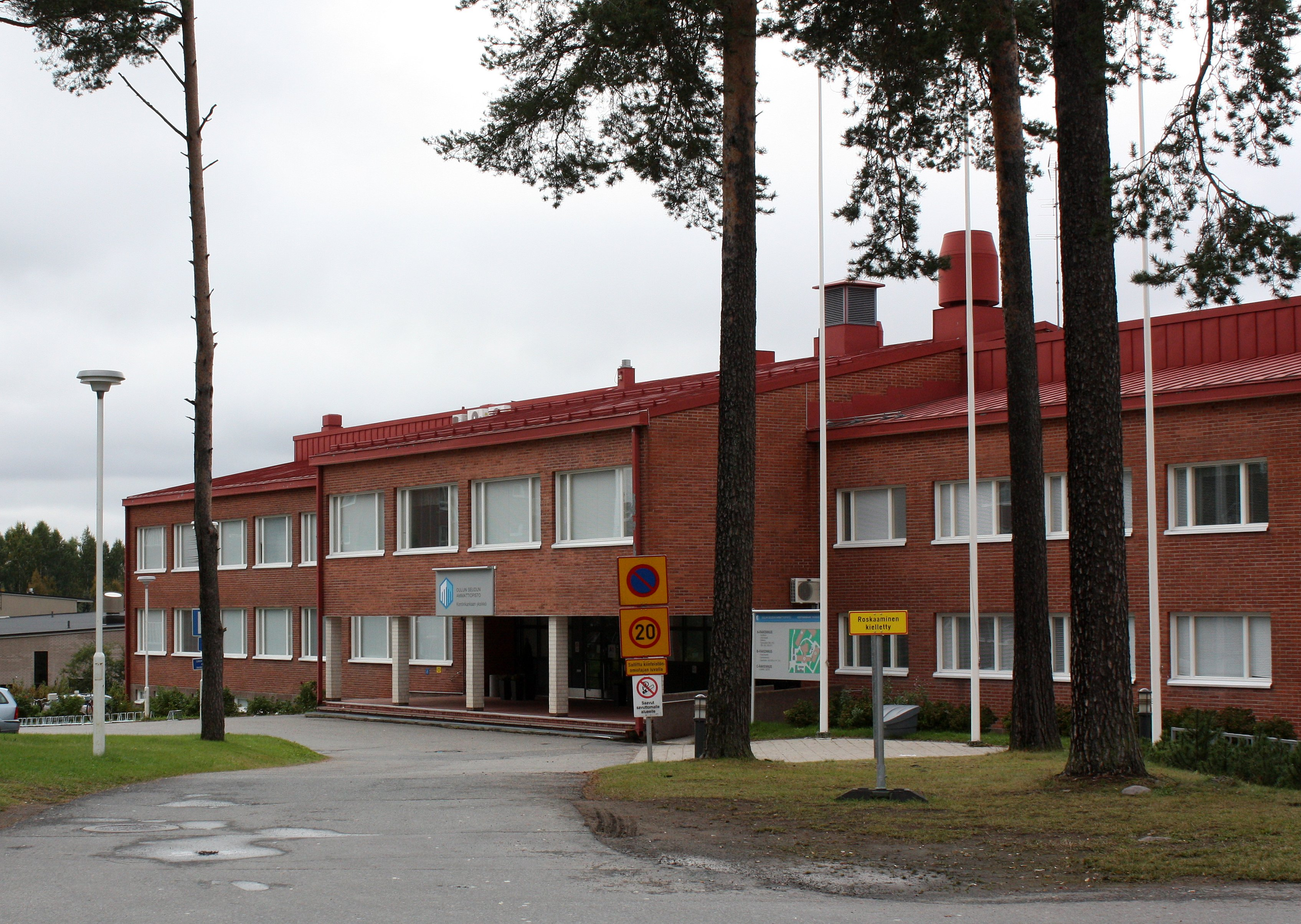 Oulu Vocational College Kontinkangas unit is a vocational scool of social and health care.